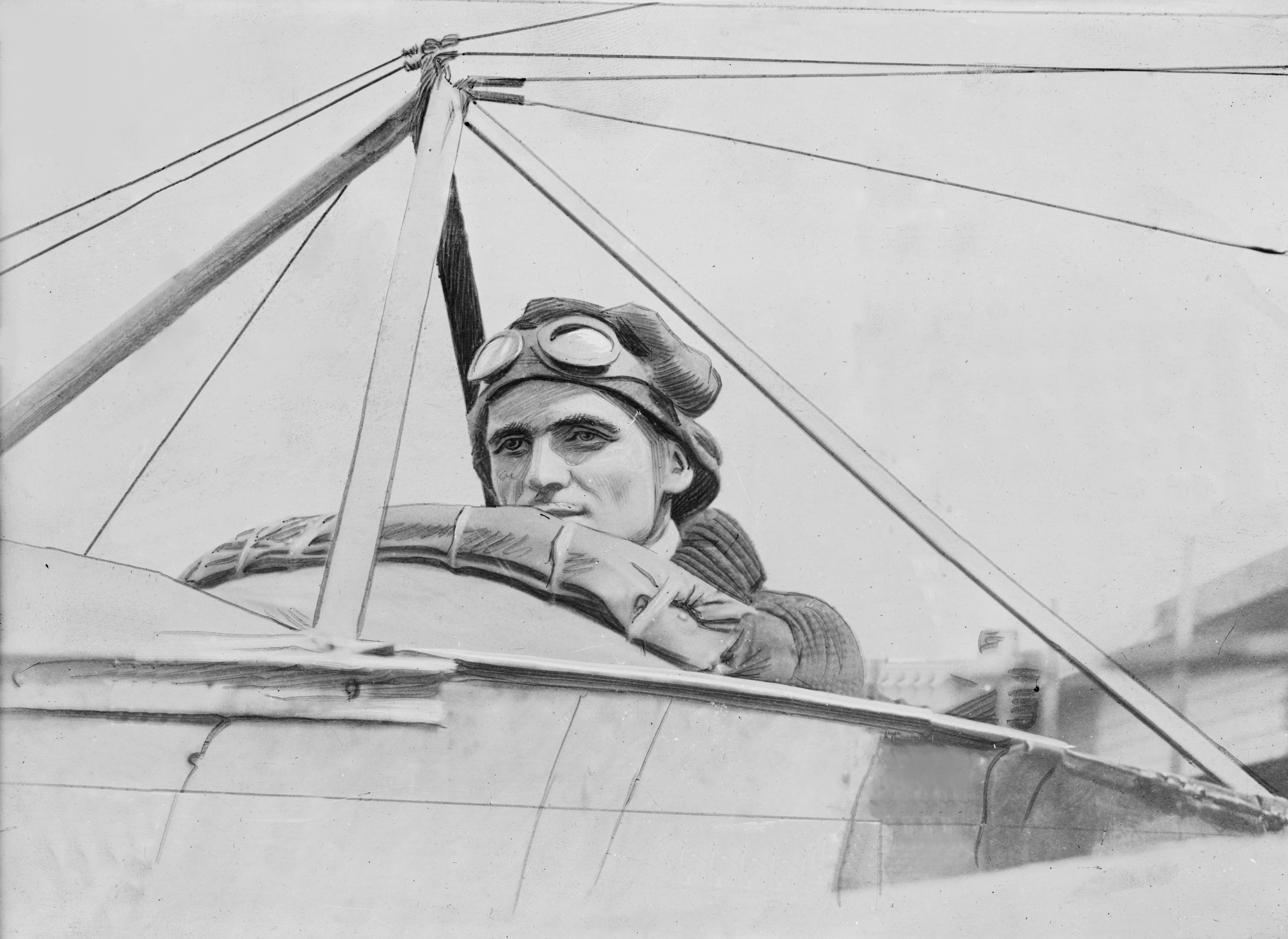 Painting of the U.S. aircraft engineer Chauncey Milton Vought (26 February 1890 - 25 July 1930).